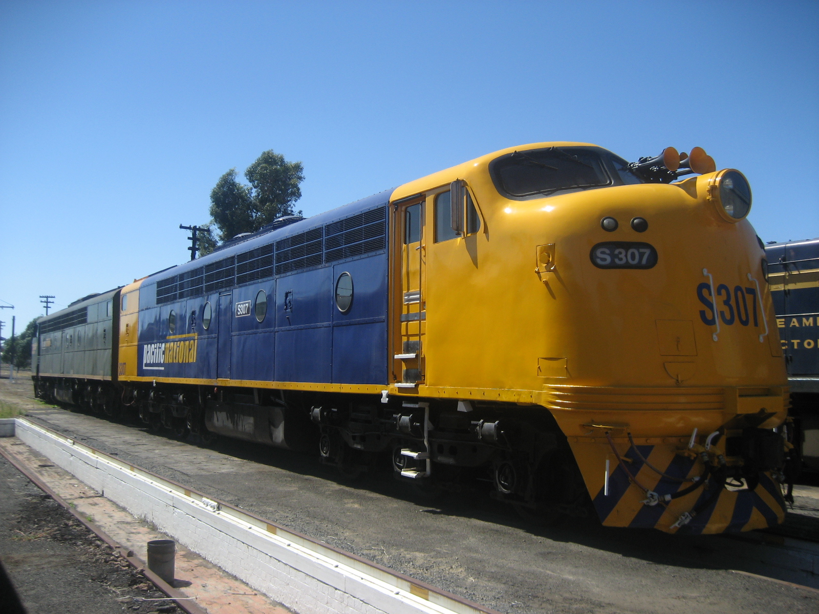 Pacific National S class locomotive 'S307' at Newport Workshops.